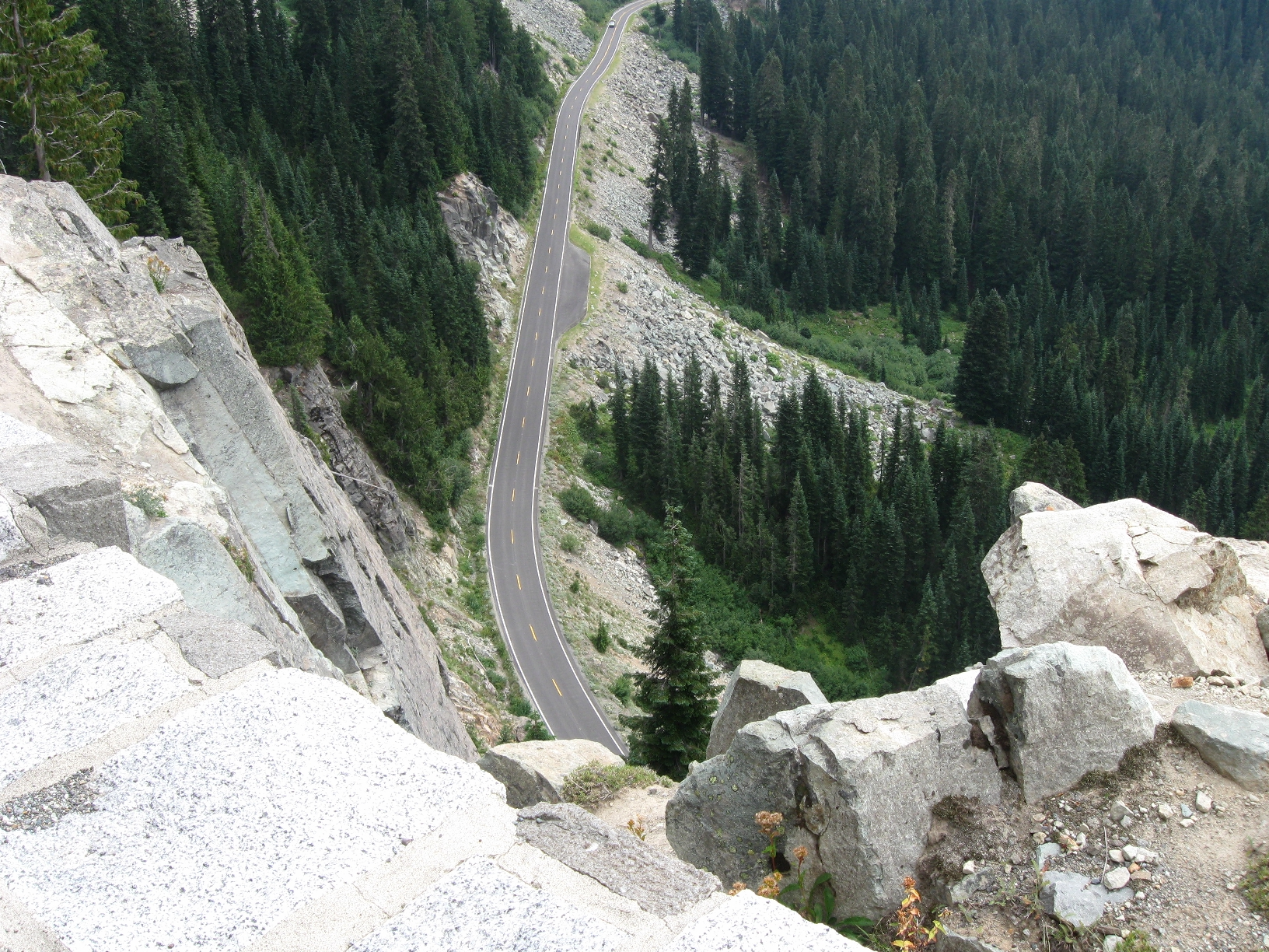 A view of Washington State Route 123 on the west side of Chinook Pass